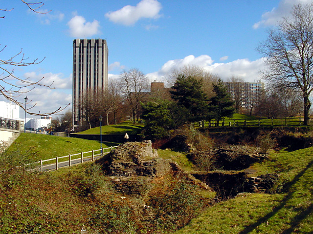 Remains of Bristol Castle, looking towards north-east.